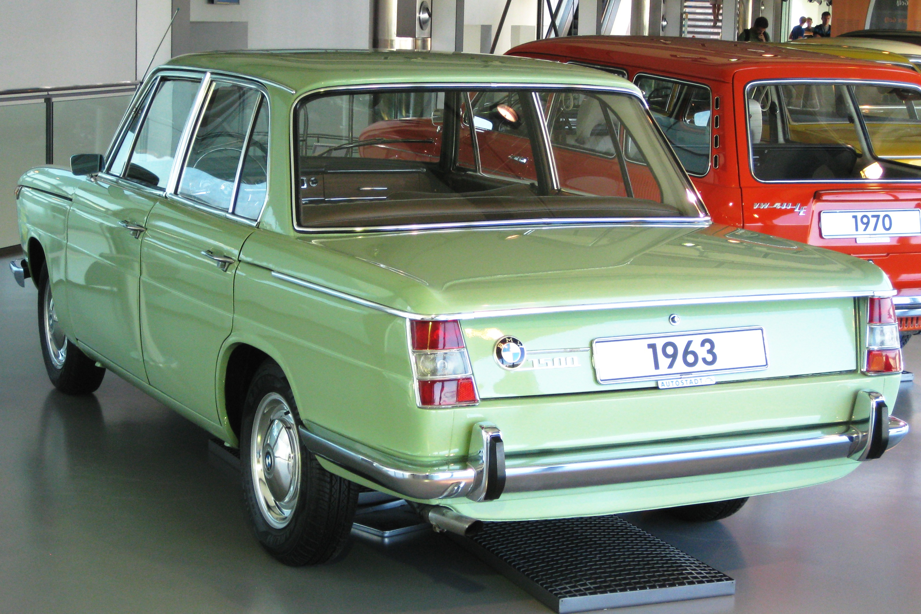 BMW 1500 1963 in a museum at Wolfsburg